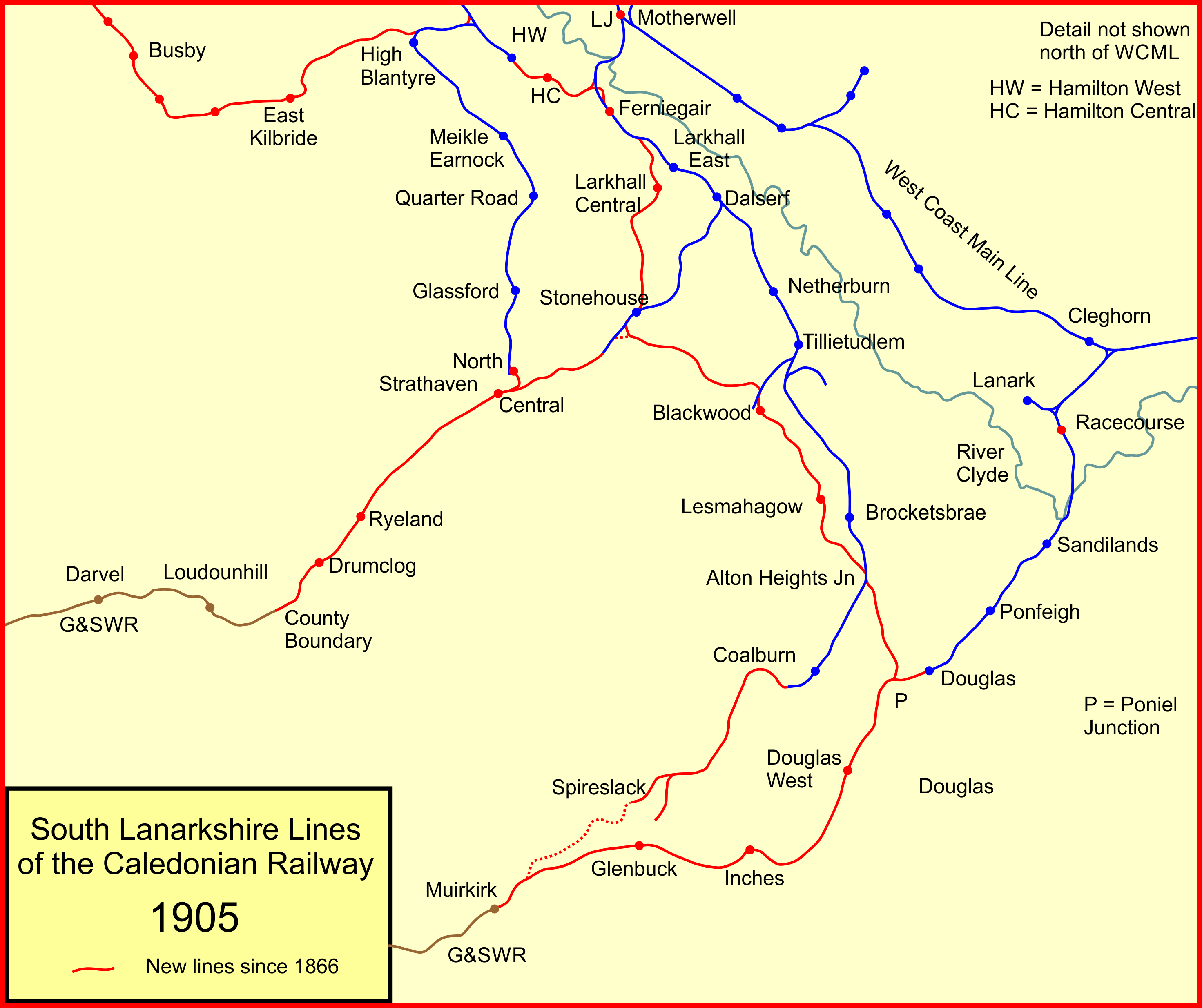 The railway network in South Lanarkshire in 1905